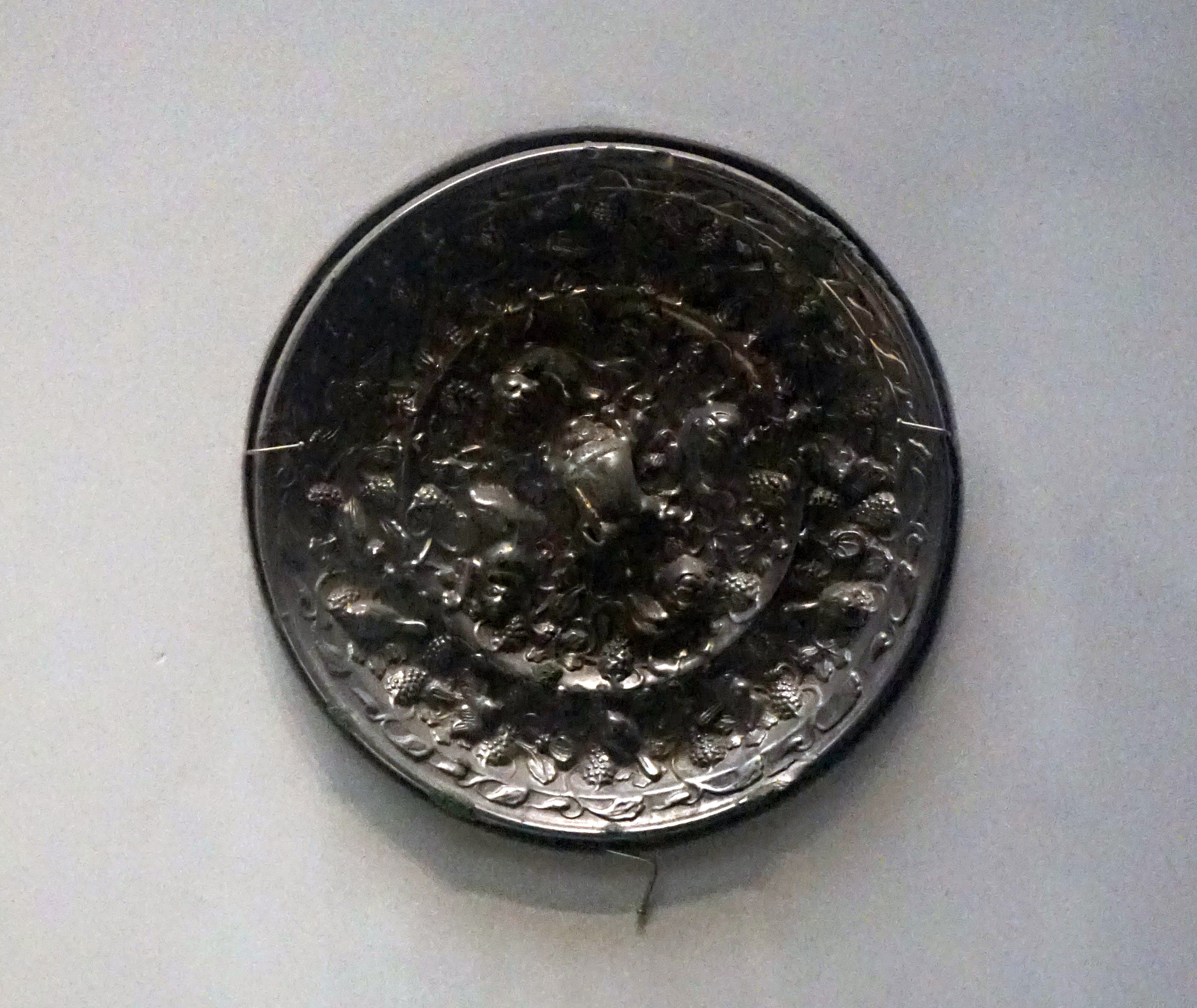 Bronze Mirror with Design of Grapes and Sea Animals. Tang Dynasty. Unearthed from the southern suburbs, Xi'an city, 2003. 国家一级文物